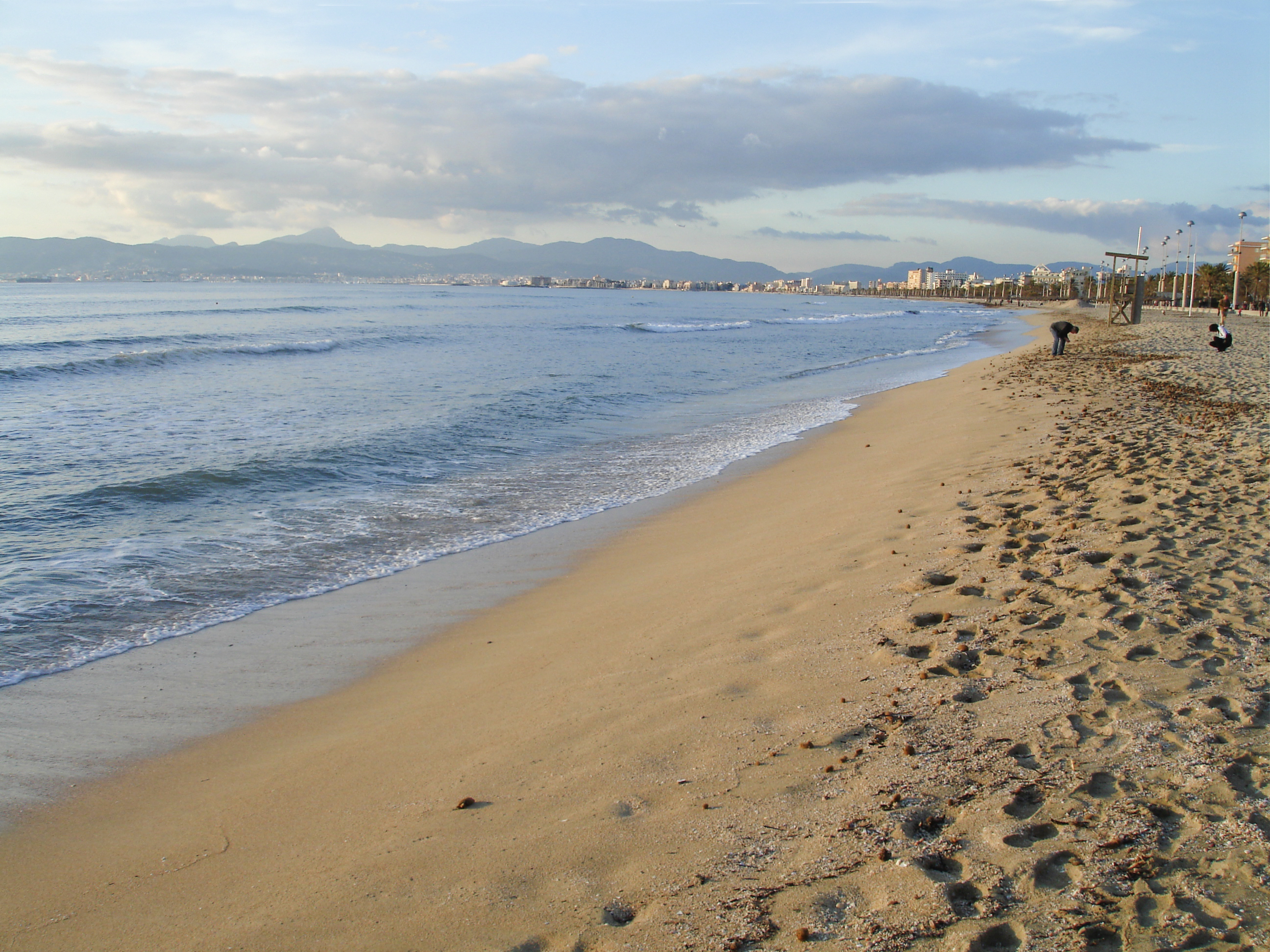 Evening at Playa de Palma